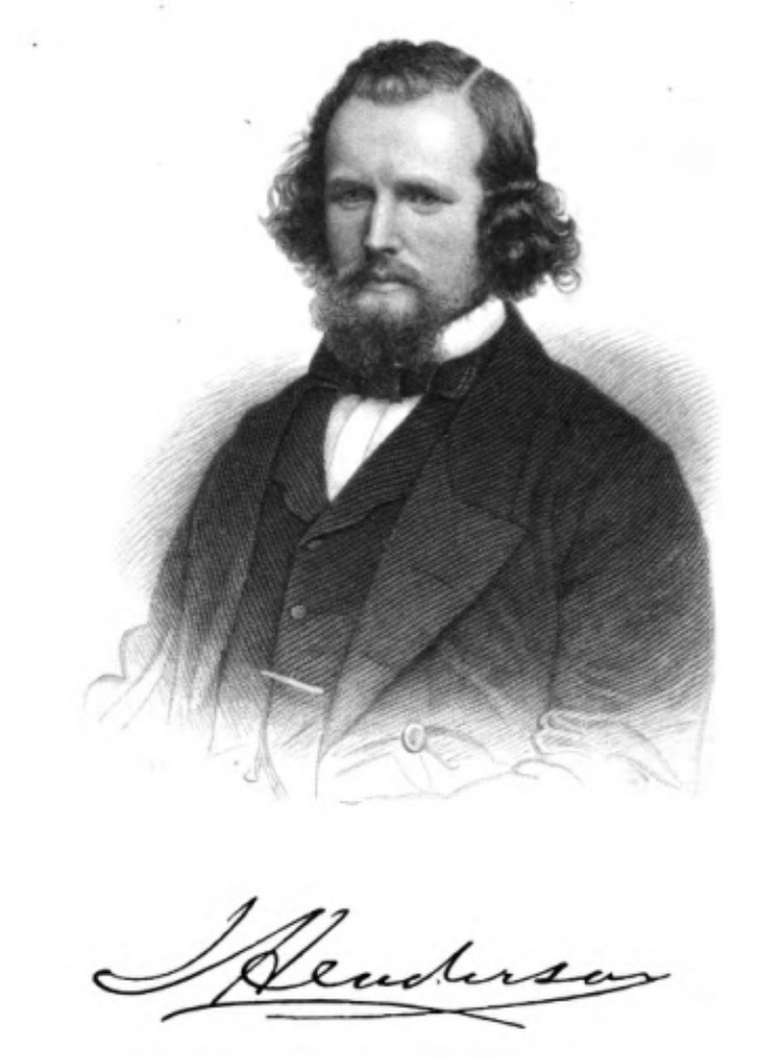 James Henderson, medical missionary